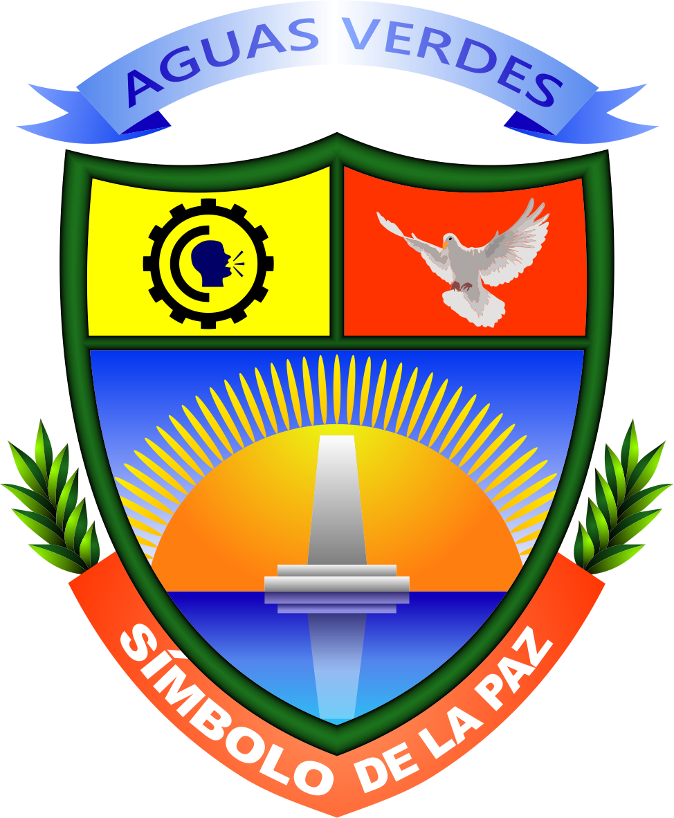 Green water district - Zarumilla Province - Tumbes Region